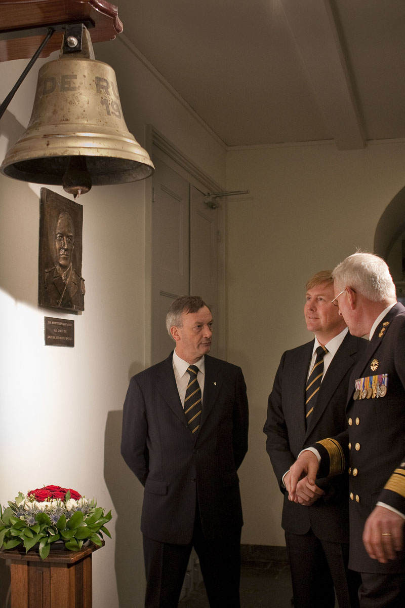 Prince Willem Alexander at the statue of Karel Doorman during the remembrance of the Battle of the Java Sea in 2012.